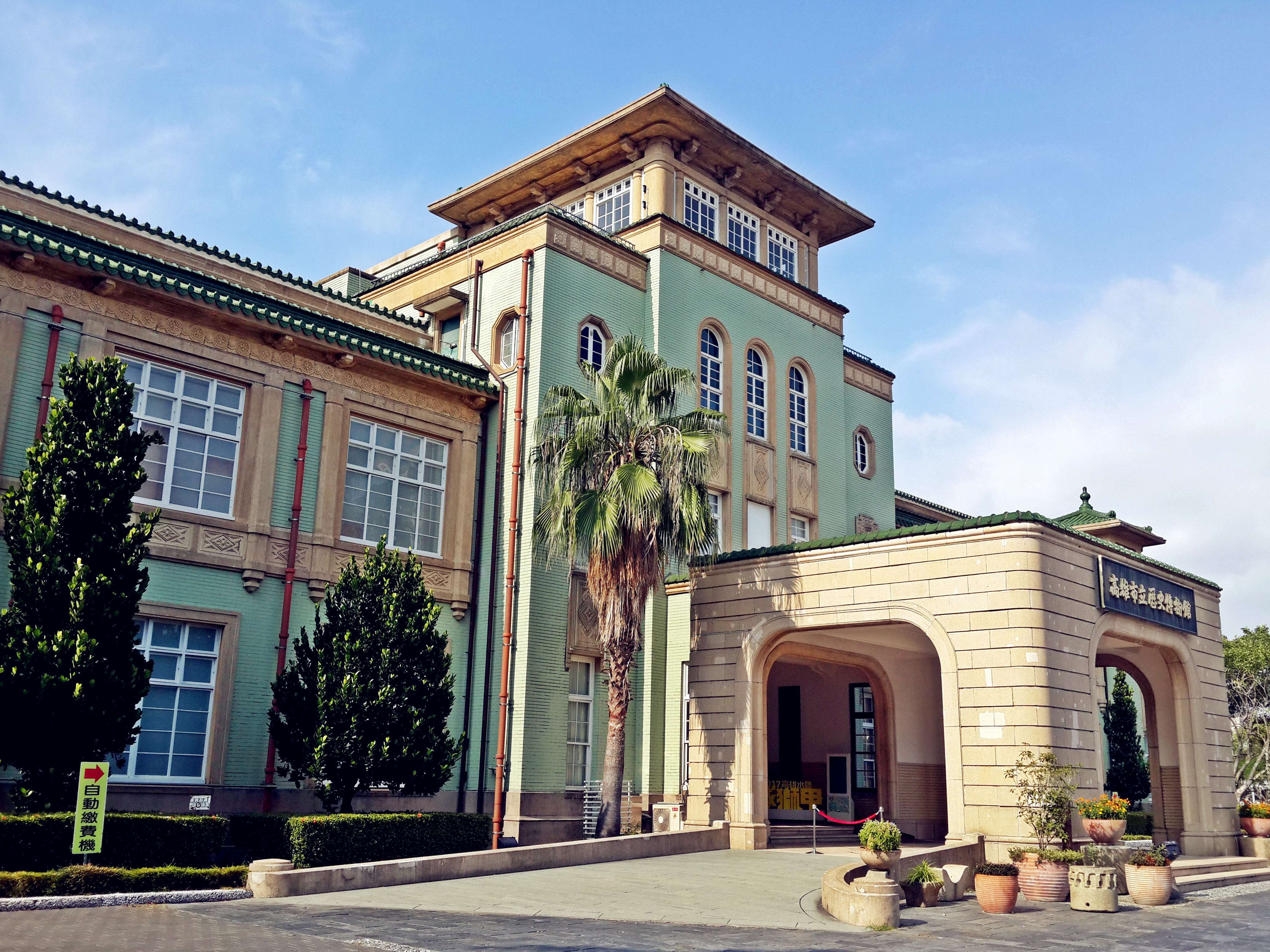 Originally the headquarters of the Kaohsiung Municipal Government, the building was refurbished after the Municipal Government moved in 1992, and is Taiwan's first museum of history run by a municipal government. The exhibits record the hardships endured by our predecessors amid the grueling process of clearing mountain forest they endured through the precious artifacts exhibited in the museum and the Museum's varied research and promotion activities, making more of the public understand the course of Kaohsiung's development.